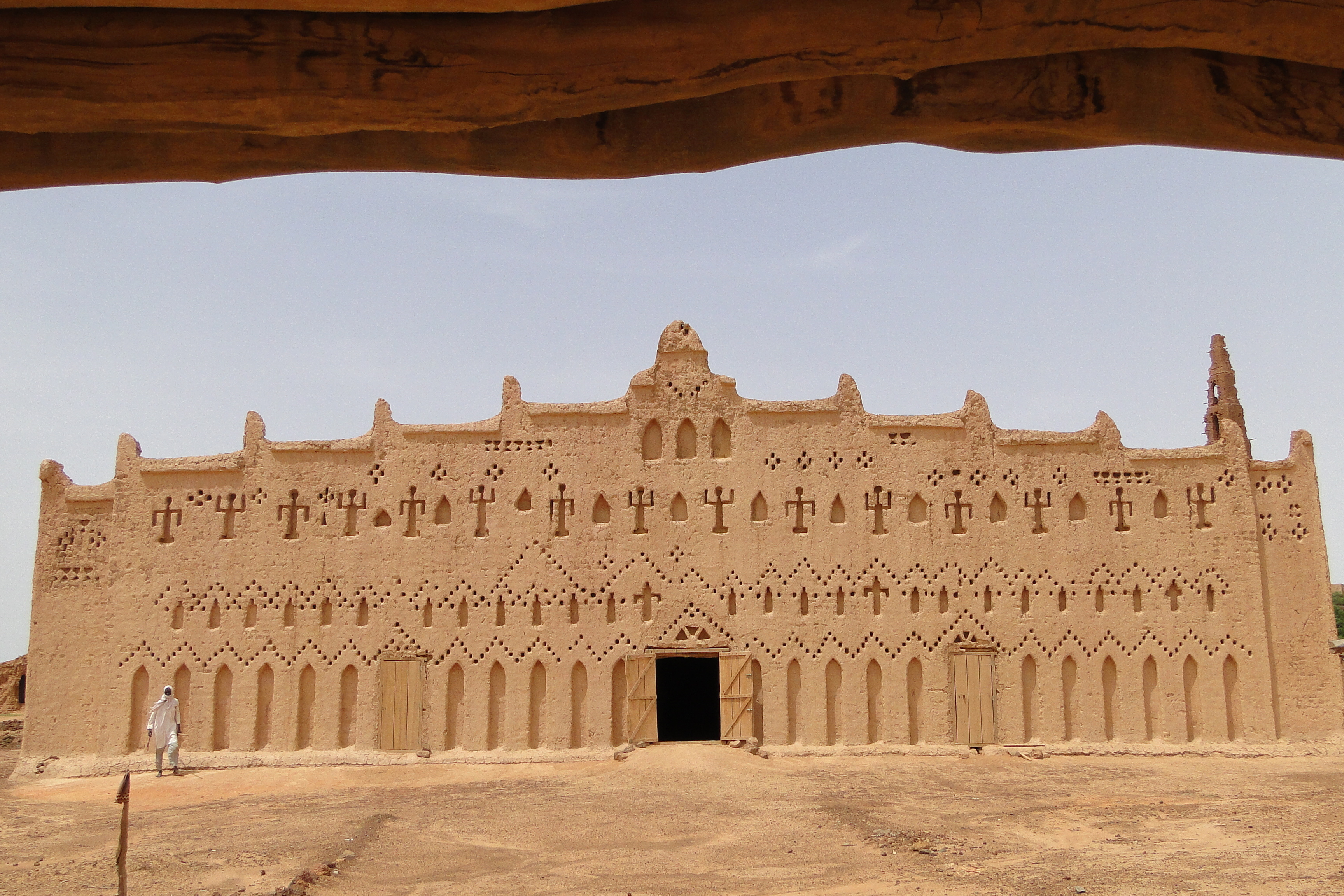 Mud Mosque - Bani - Sahel Region - Burkina Faso - 02